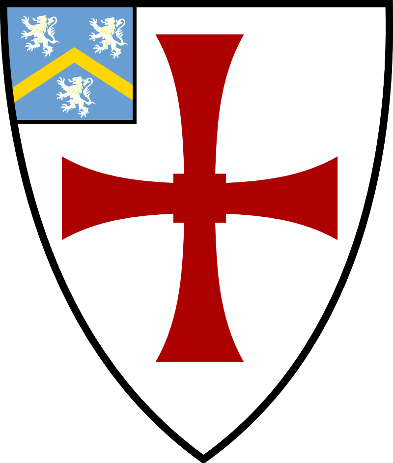 Shield of Durham University. Argent, a Cross patee quadrate Gules; a Canton Azure, charged with a Chevron Or between three Lions rampant of the first.